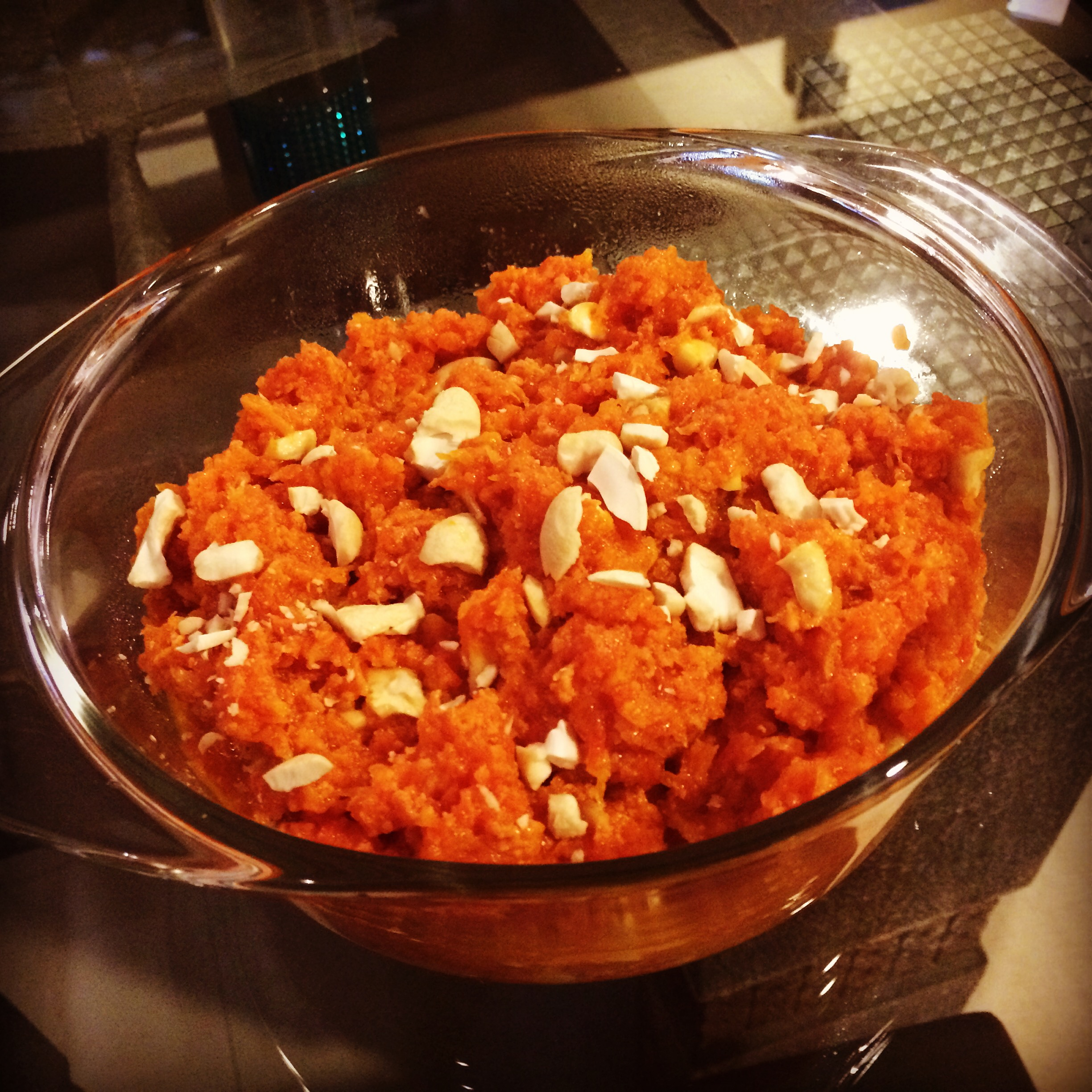 Indian dessert